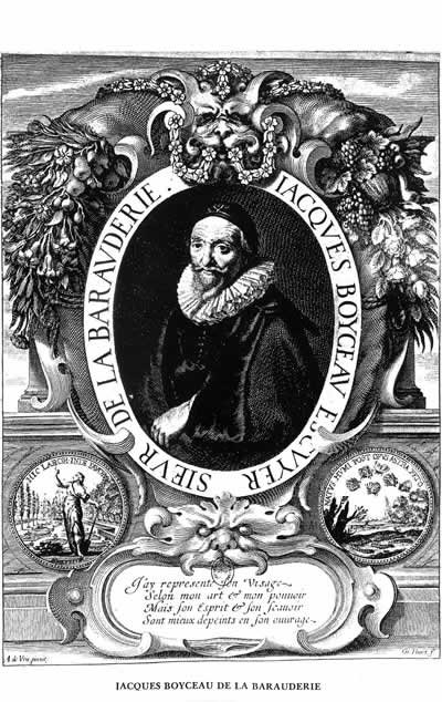 The french gardener Jacques Boyceau de la Barauderie (c. 1562 - c. 1634), frontispiece to Boyceau's Traité du jardinage